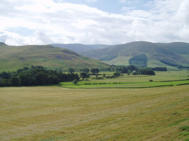 Farmland, Manor Valley. These fields slope down to the river, the Manor Water. In the middle distance are, on the left, the south-western slope of Cademuir Hill and, on the right, Canada Hill.